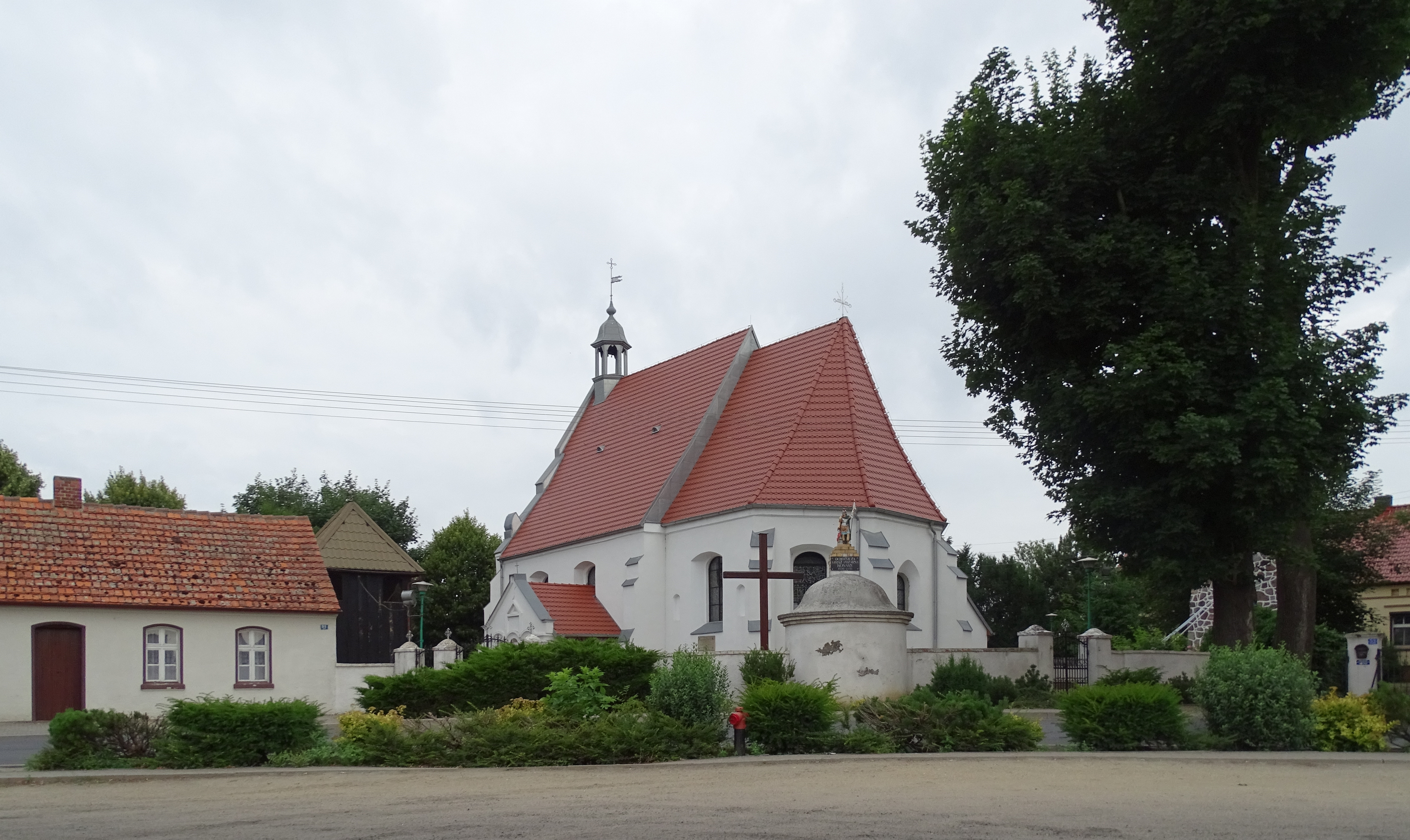 Konary, Rawicz county, Poland. Parish church of Saint Michael from 1512. Rebuilt in 1782.